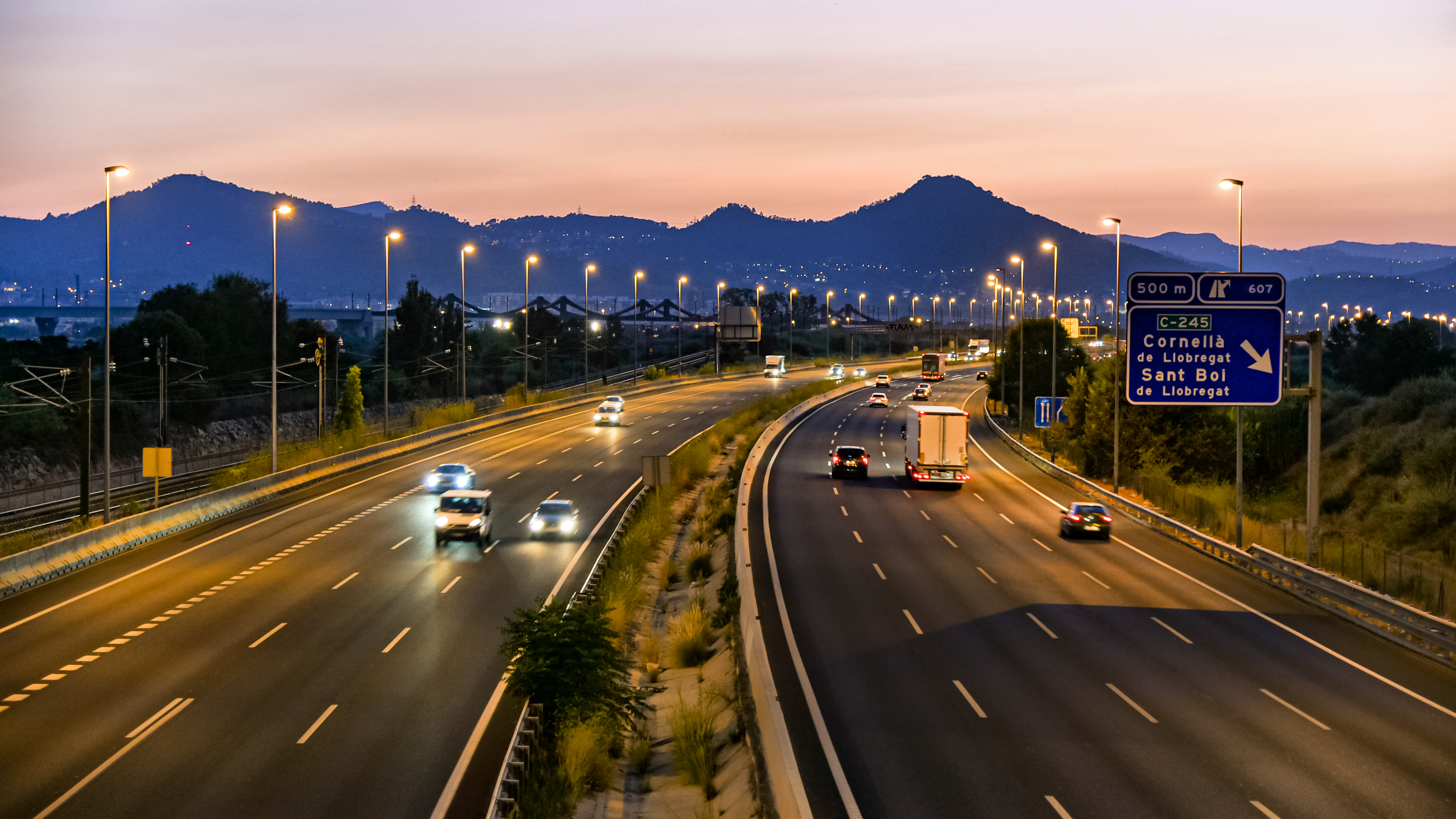 Cornellà de Llobregat (Barcelona)